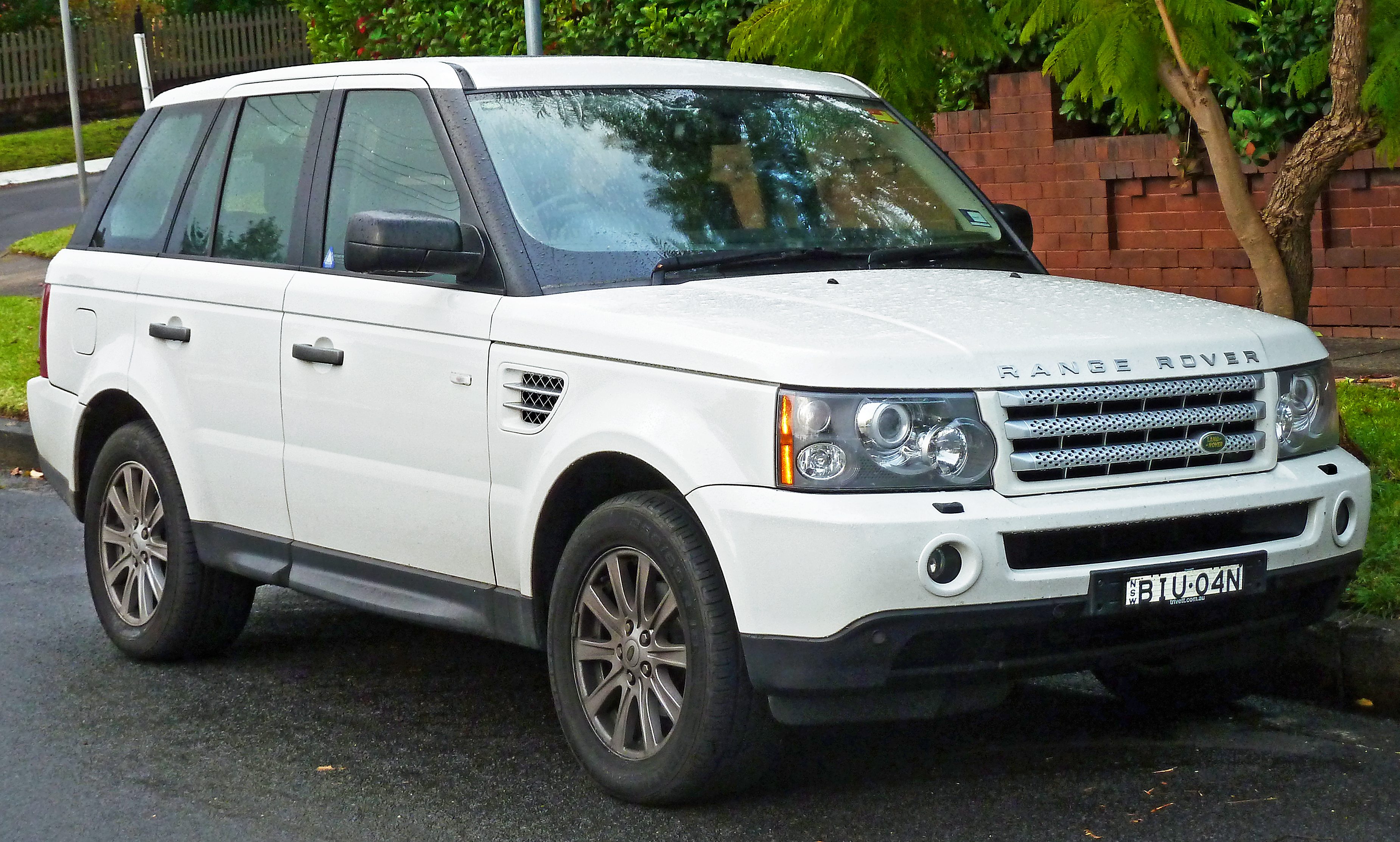 2008–2009 Land Rover Range Rover Sport wagon. Photographed in Roseville, New South Wales, Australia.